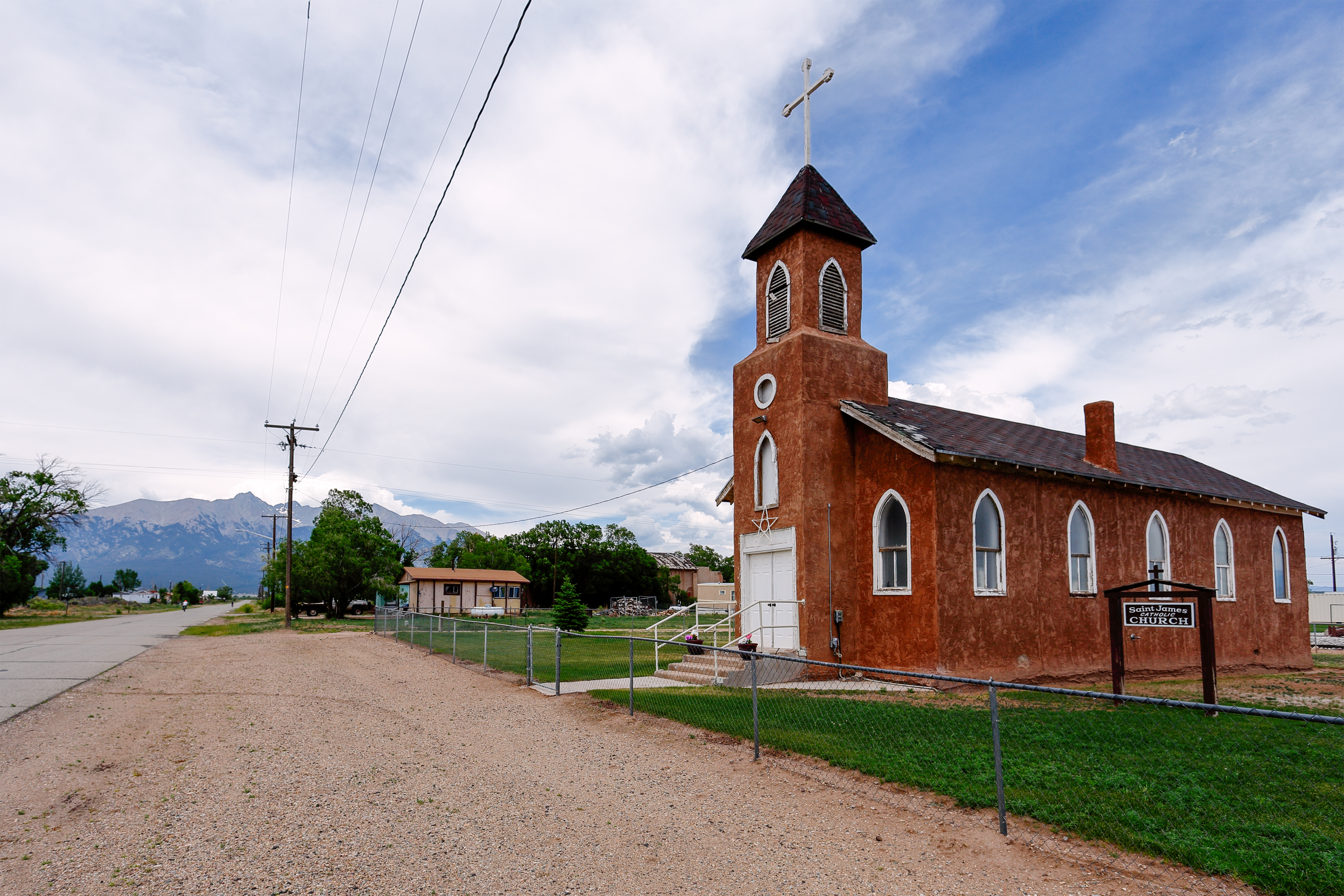 Saint James Catholic Church - Blanca, Colorado, 2016